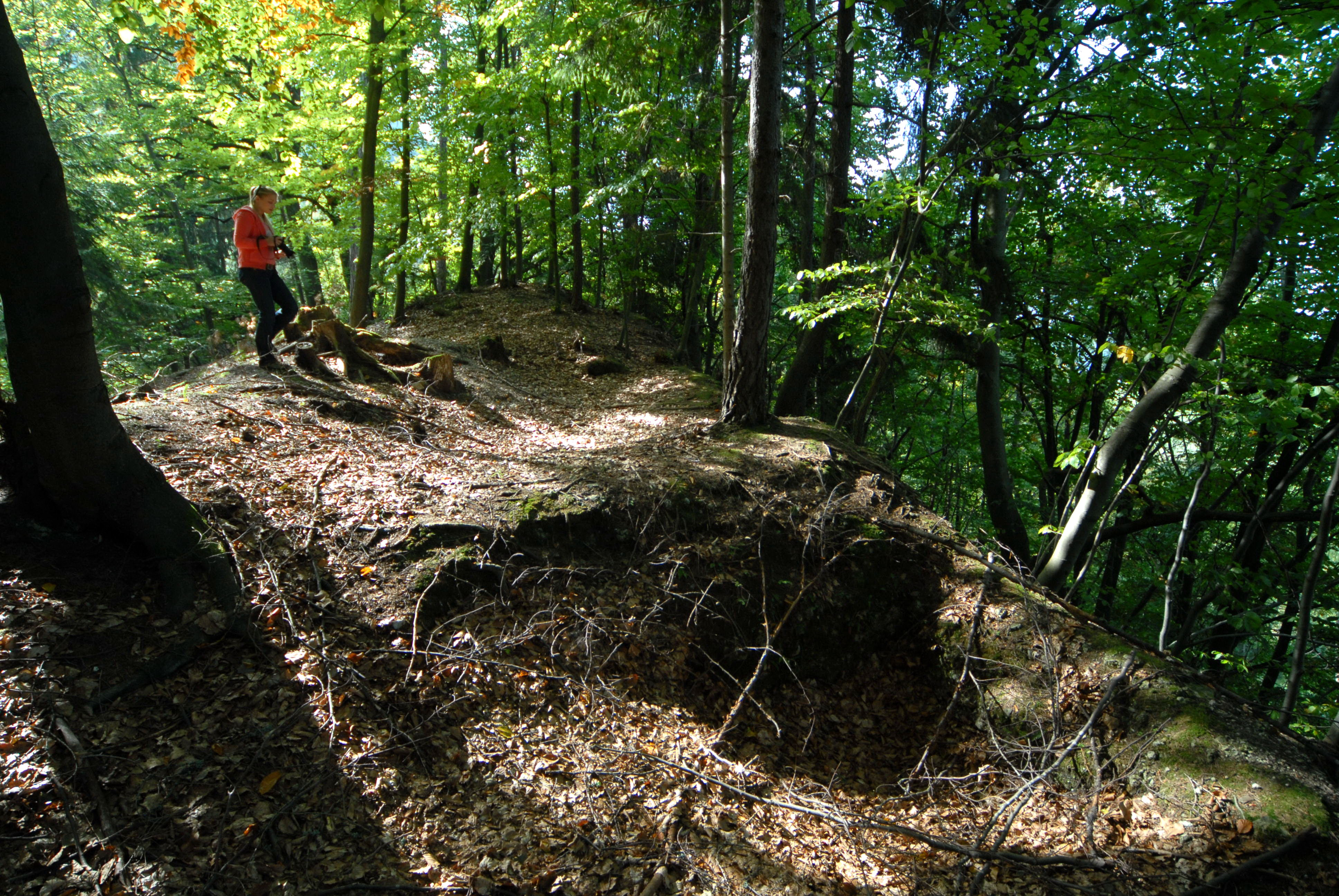 Castle ruin of Greifenfels near Ebenthal, district Klagenfurt-Land, Carinthia, Austria